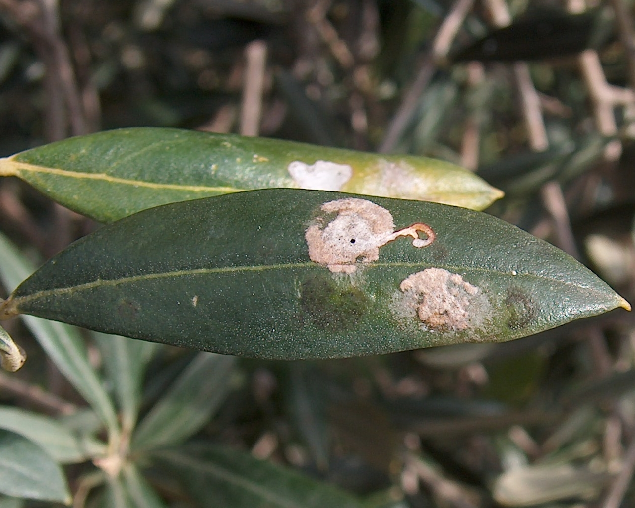 Leafmines by larva instar IV of Prays oleae Bernard (Lepidoptera: Yponomeutidae) on Olive tree leaf